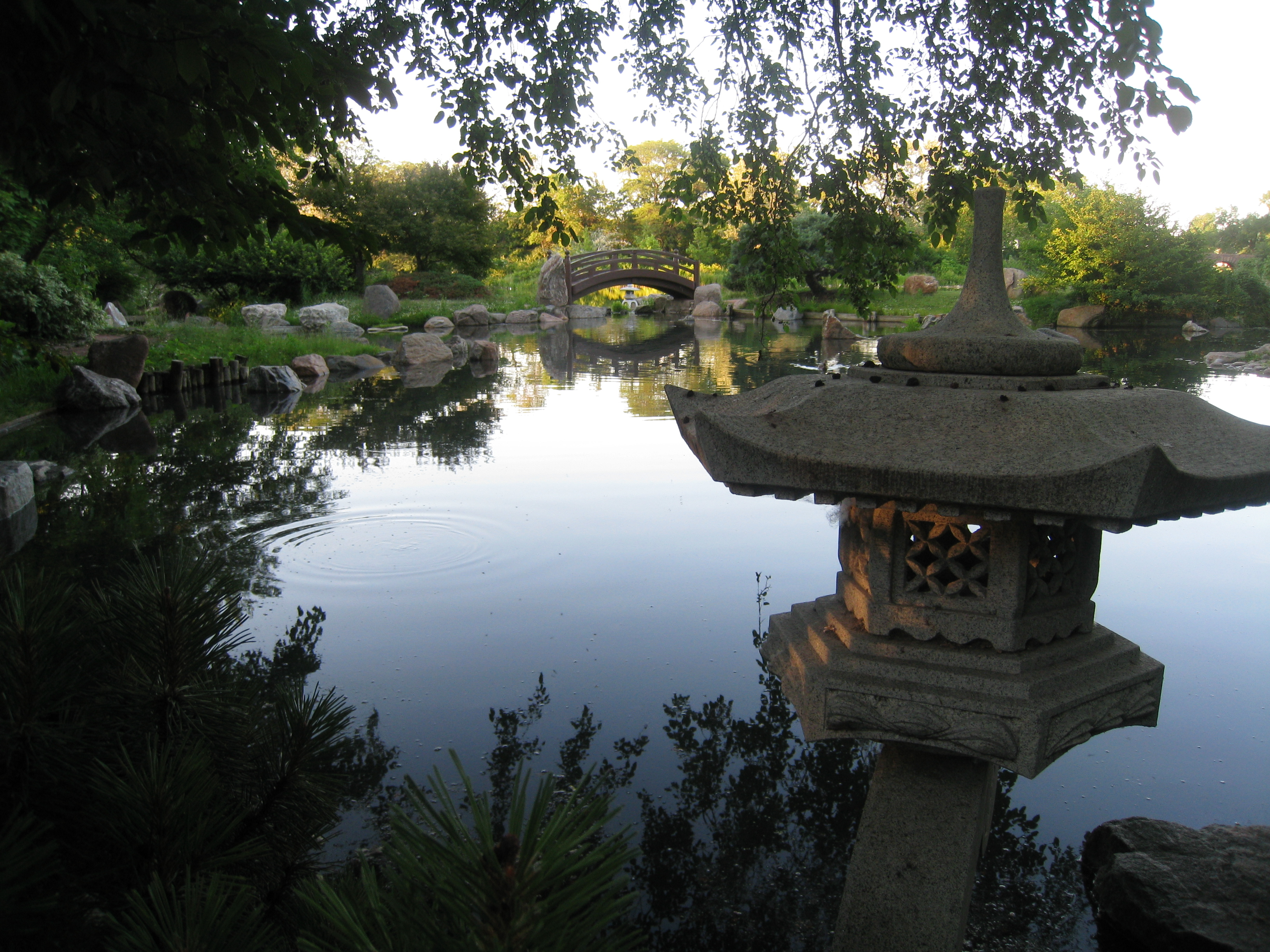 Stone lantern facing the Moon Bridge at Osaka Garden ("Japanese Garden", Woooded Island, Jackson Park, Chicago, Illinois, United States